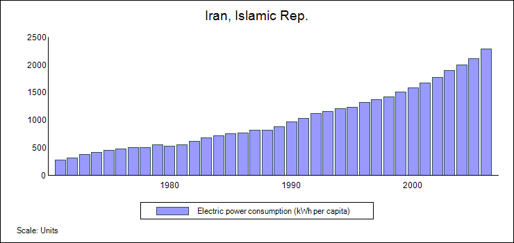 Electric power consumption (KWh per captia), Iran (1971-2006).